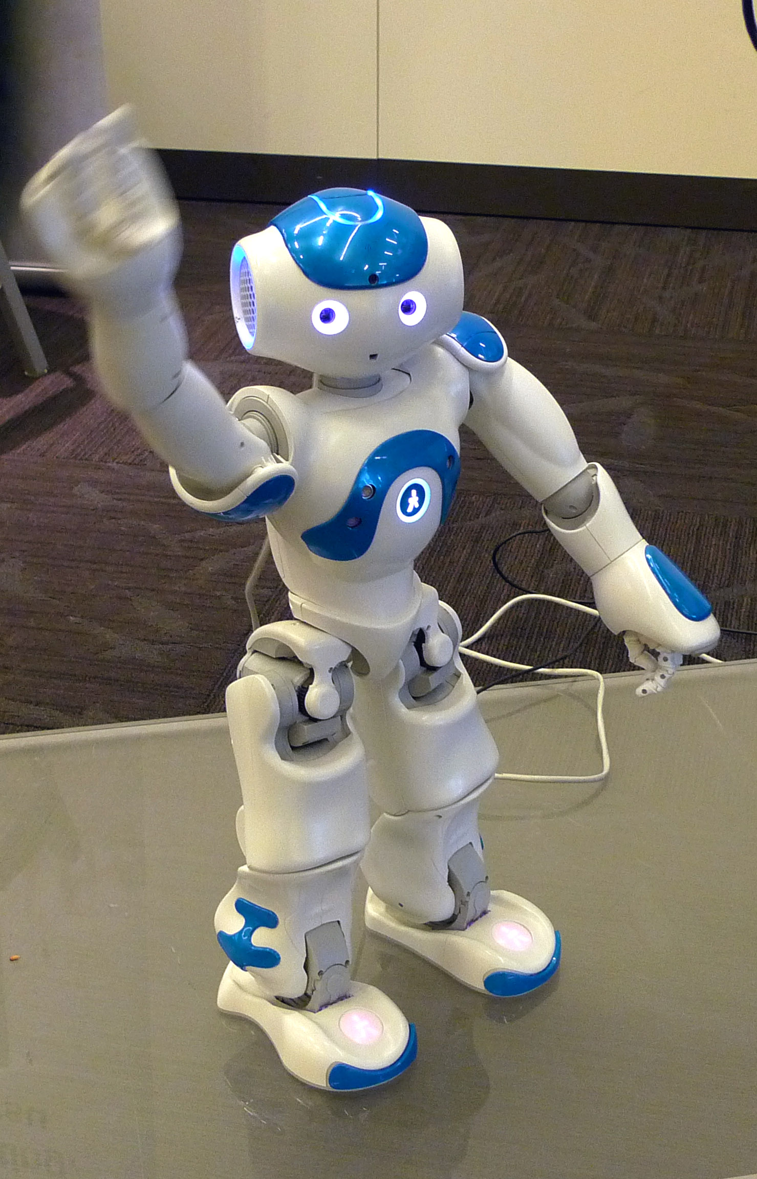 NAO robot, hand waving gesture.